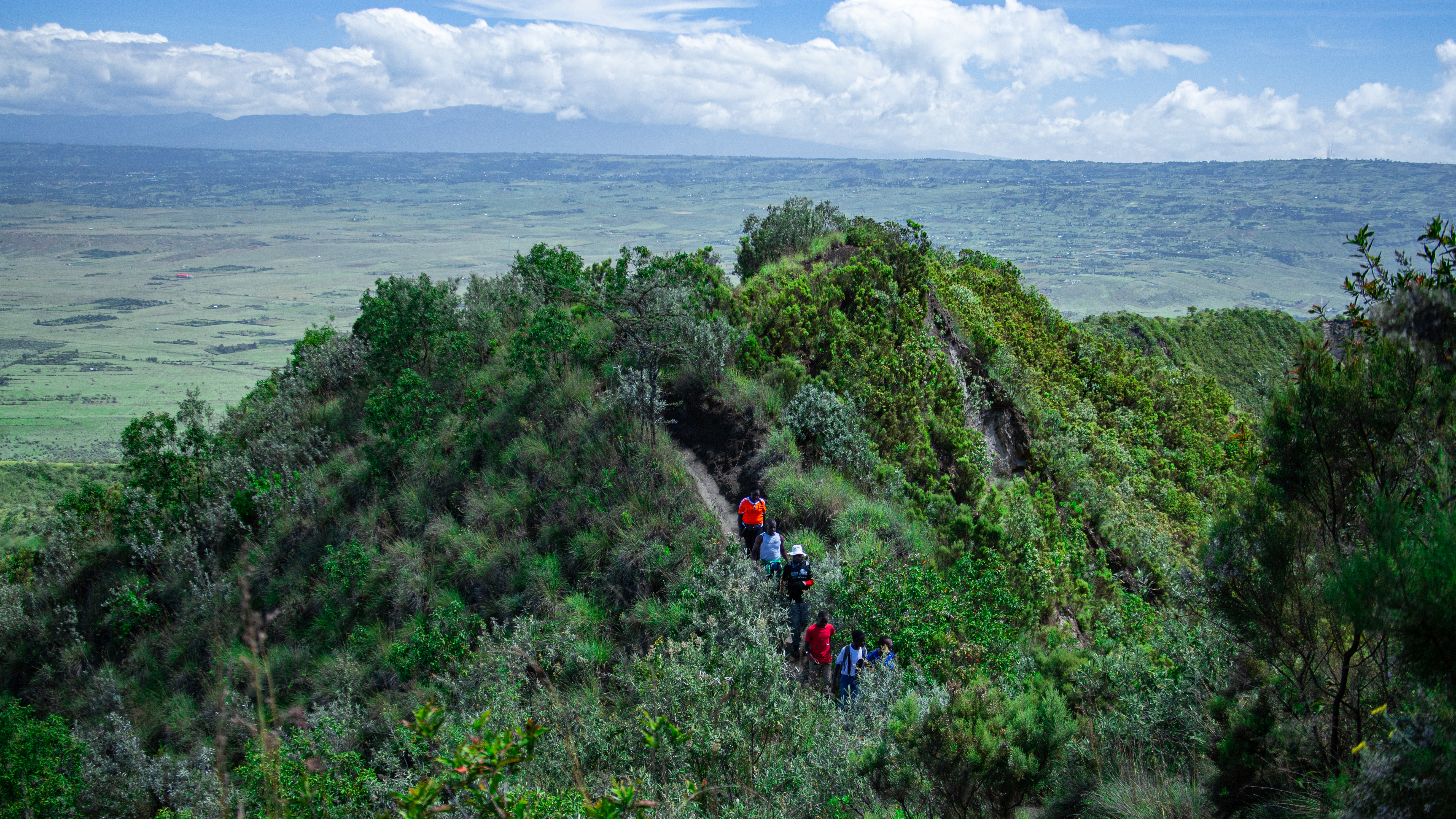 This is an image with the theme "Africa on the Move or Transport" from: Kenya